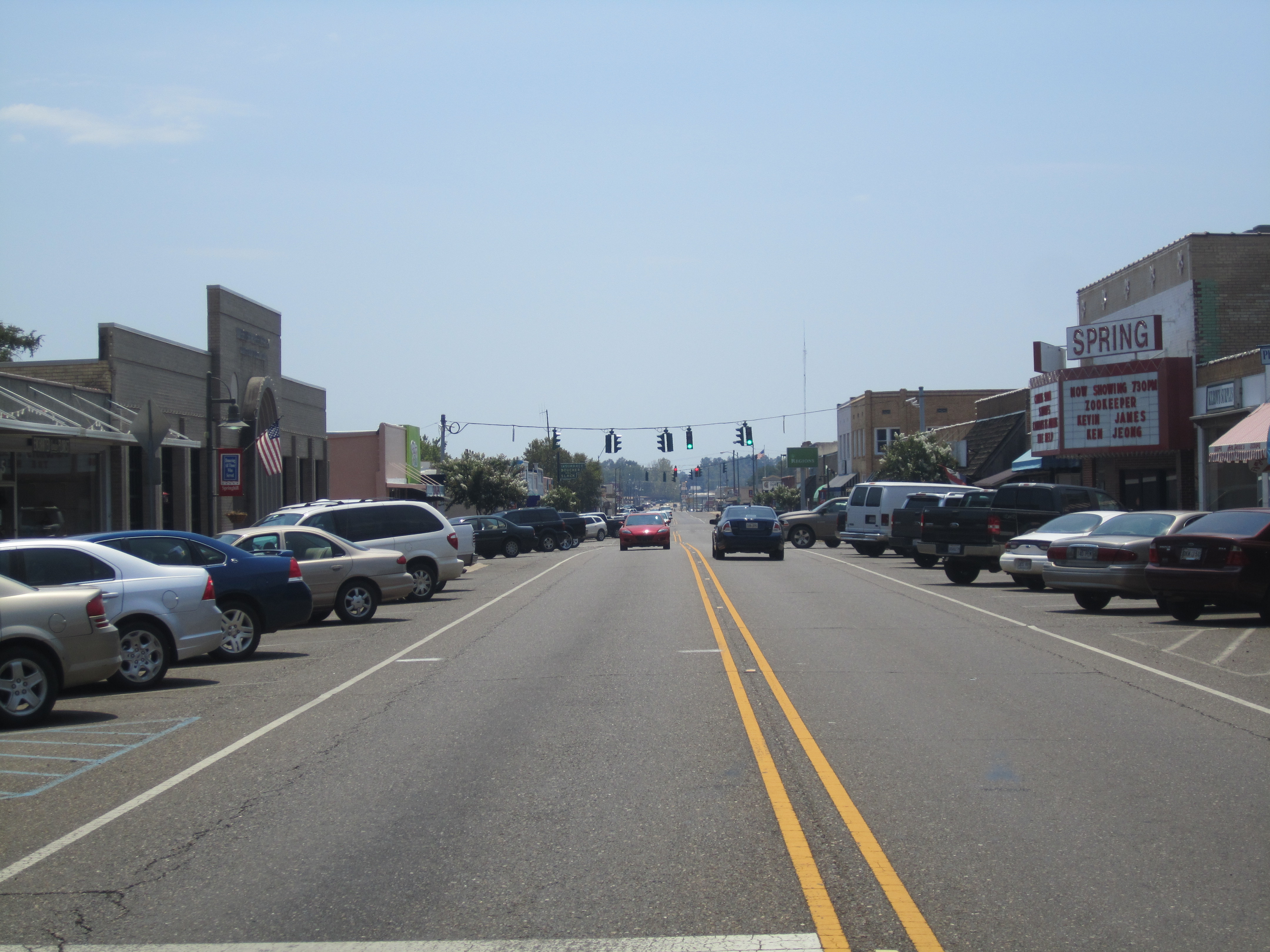 I took photo with Canon camera of downtown Springhill, LA.